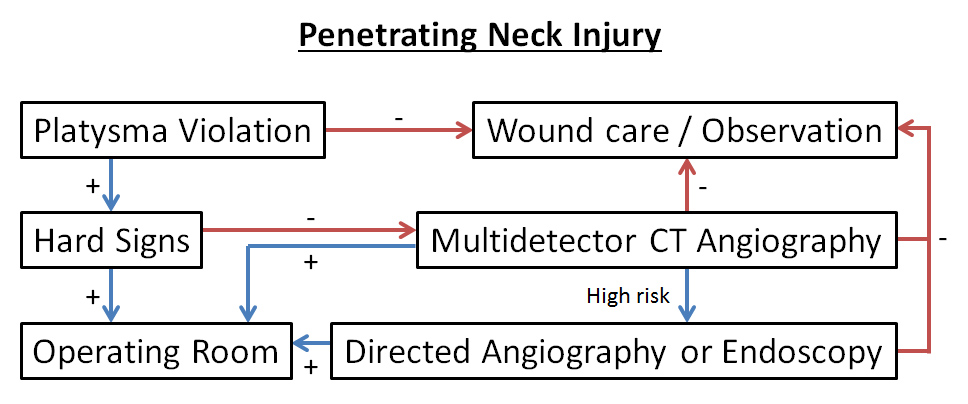 Penetrating Neck Injury (PNI) Protocol. Adapted from PMID: 23317595.